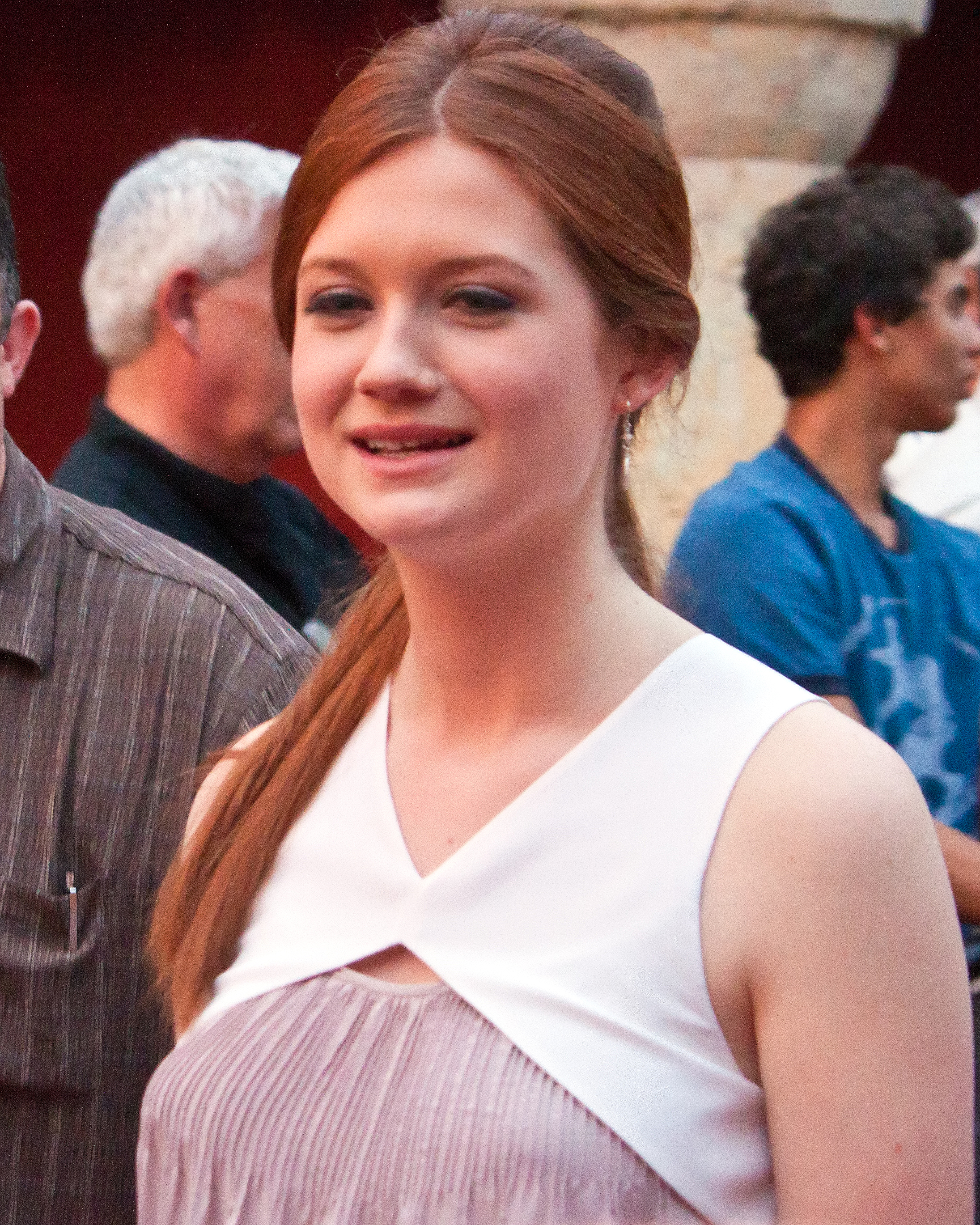 Bonnie Wright at the The Wizarding World of Harry Potter 2010.